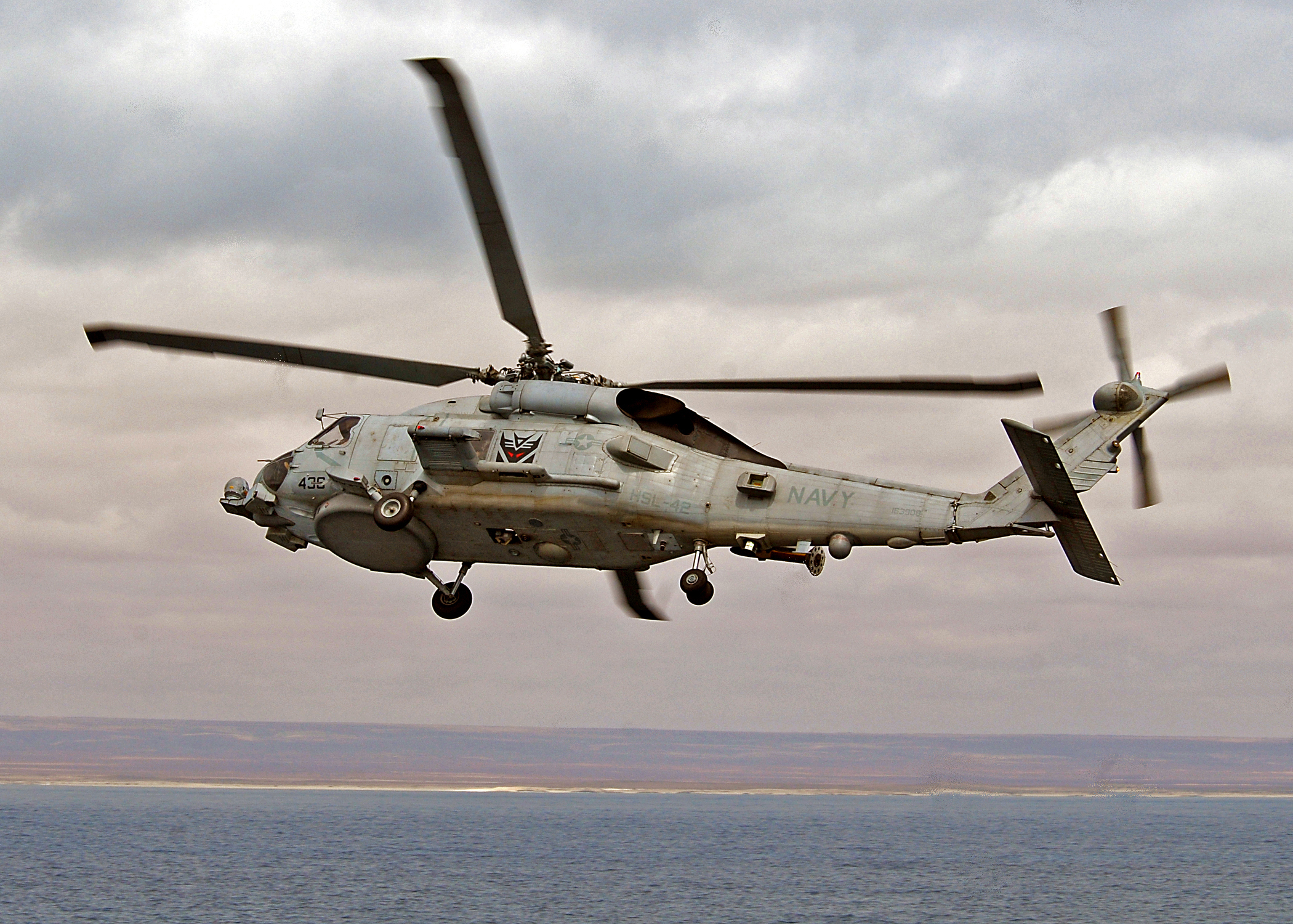 081017-N-1082Z-013 INDIAN OCEAN (Oct. 17, 2008) An SH-60B from Helicopter Anti-Submarine Squadron Light (HSL) 42 conducts a vertical replenishment with the guided-missile cruiser USS Vella Gulf (CG 72). Vella Gulf is deployed as part of the Iwo Jima Expeditionary Strike Group supporting maritime security operations in the U.S. 5th Fleet area of responsibility. (U.S. Navy photo by Mass Communication Specialist 2nd Class Jason R. Zalasky/Released)